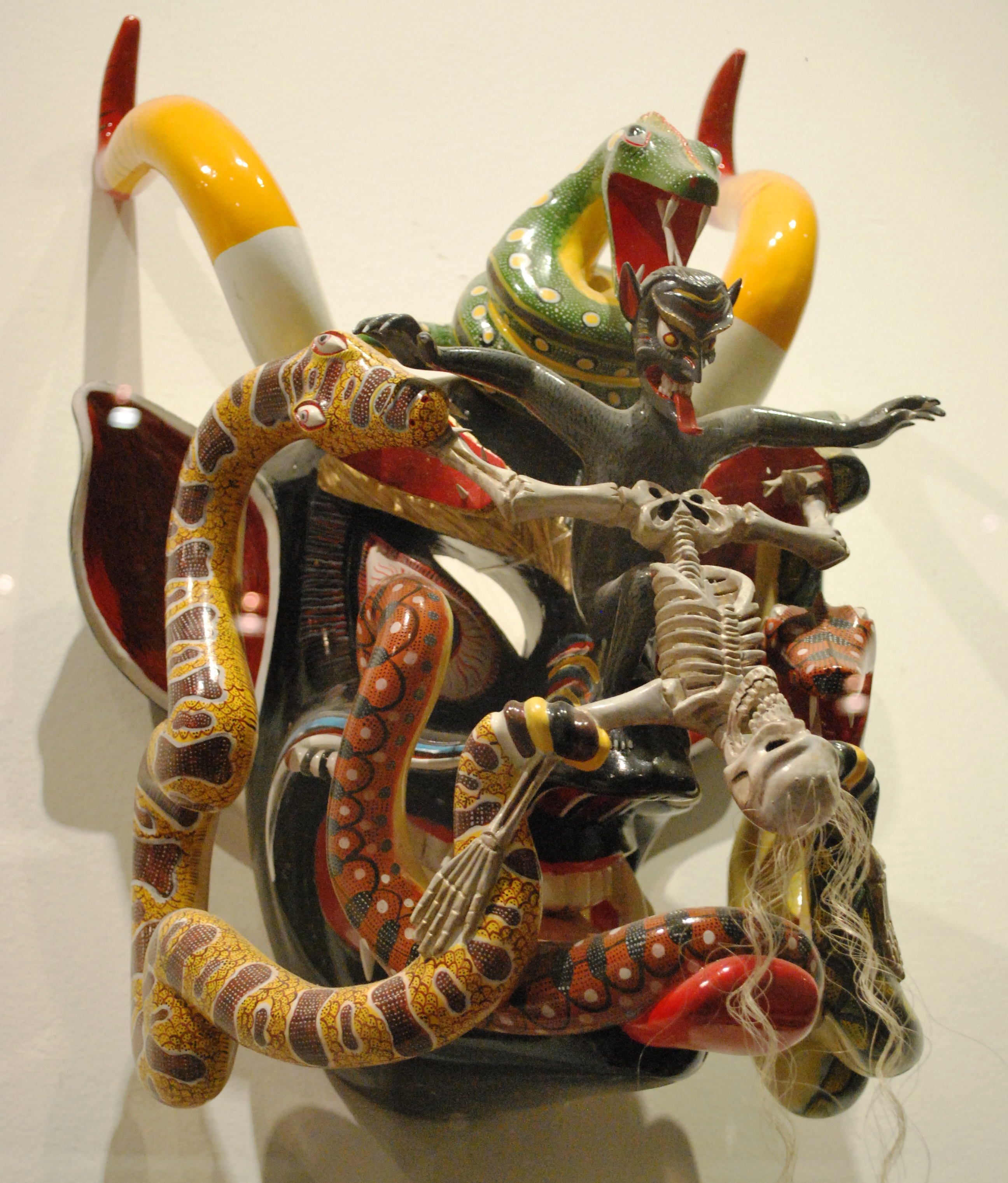 Devils mask with serpents from Erogaricuaro, Michoacan on display at the Museum of Artes Populares in Mexico City